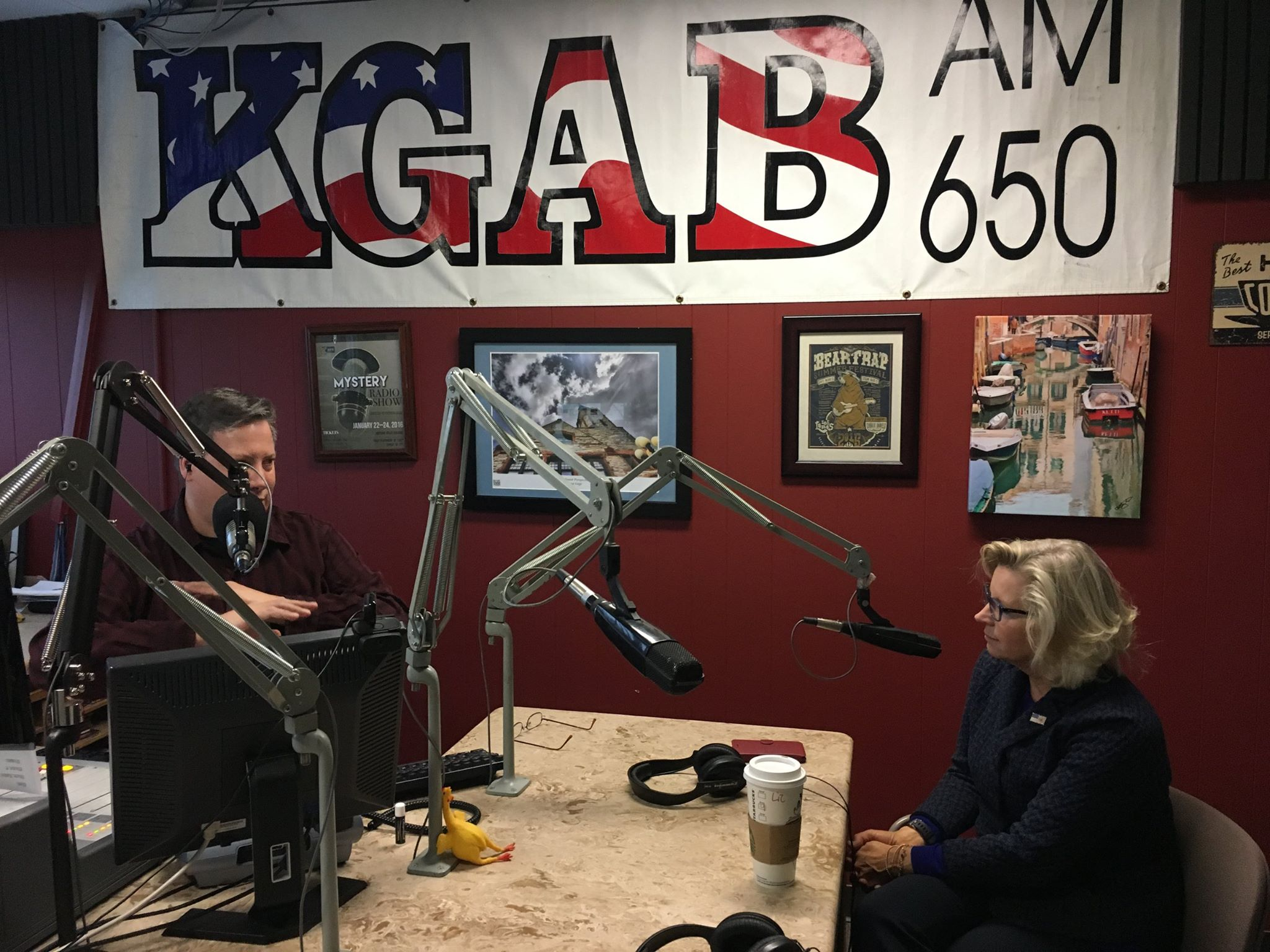 Liz Cheney